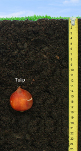 Tulip bulb place 15 cm / 6 inches, or more, below the ground. Depth of tulip bulb is most important.